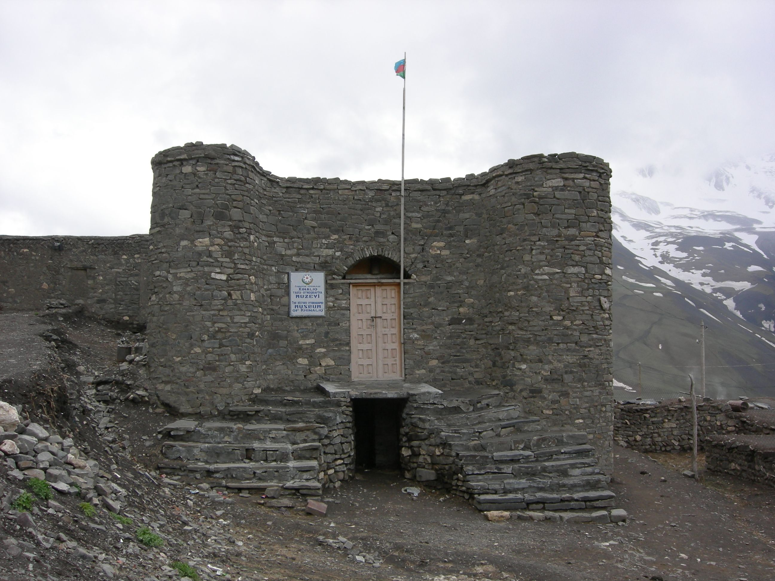 Ethnographic Museum in Xinaliq, Quba Rayon, Azerbaijan